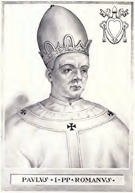 This illustration is from The Lives and Times of the Popes by Chevalier Artaud de Montor, New York: The Catholic Publication Society of America, 1911. It was originally published in 1842.